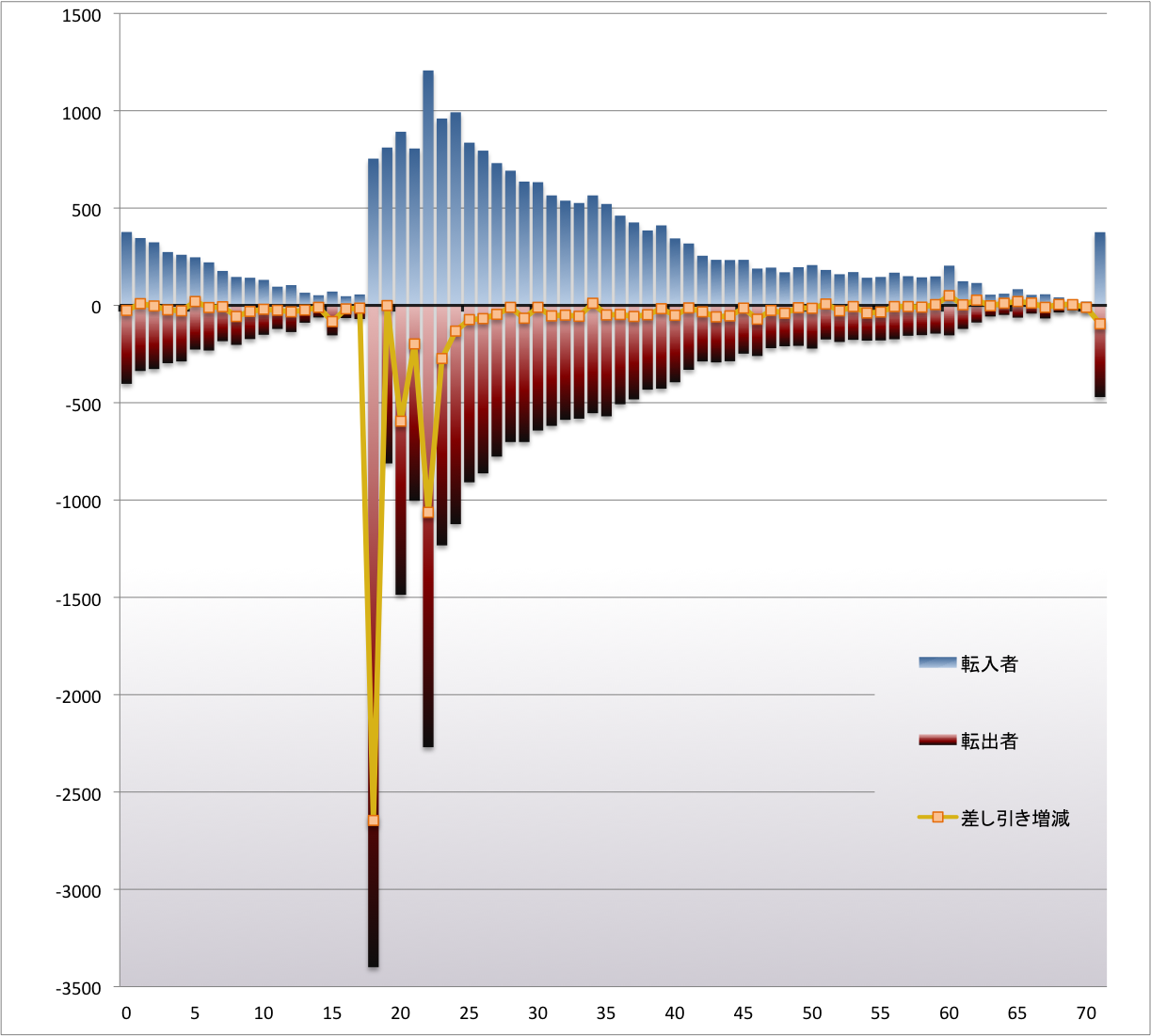 In each prefecture enter and emigration situation of Aomori prefecture by age